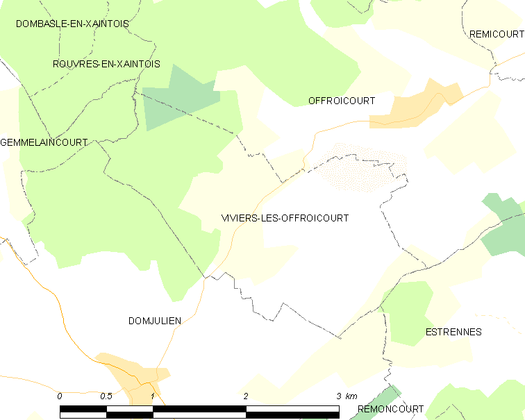 Map of French municipality Viviers-lès-Offroicourt